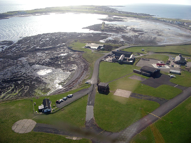 Looking down on the Flying Club and the battlefield (Battle of Ronaldsway) (1275).